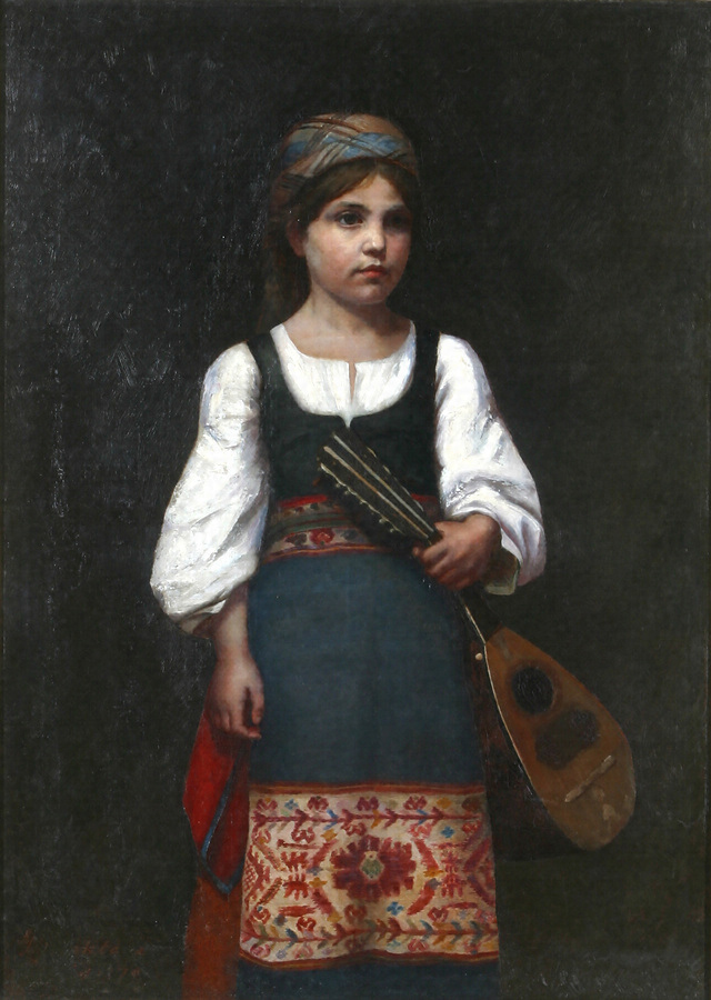 Young Girl with Mandolin by Hyakutake Kaneyuki, Historical Museum Chōkokan, Saga, Saga, Japan